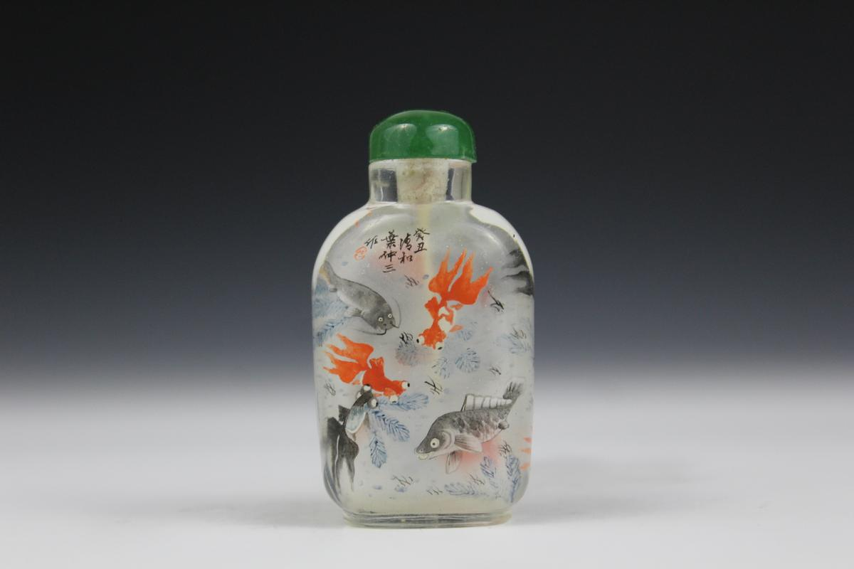 Ye Zhongsan Inside Painted Snuff Bottle of Various Fish, dated 1913